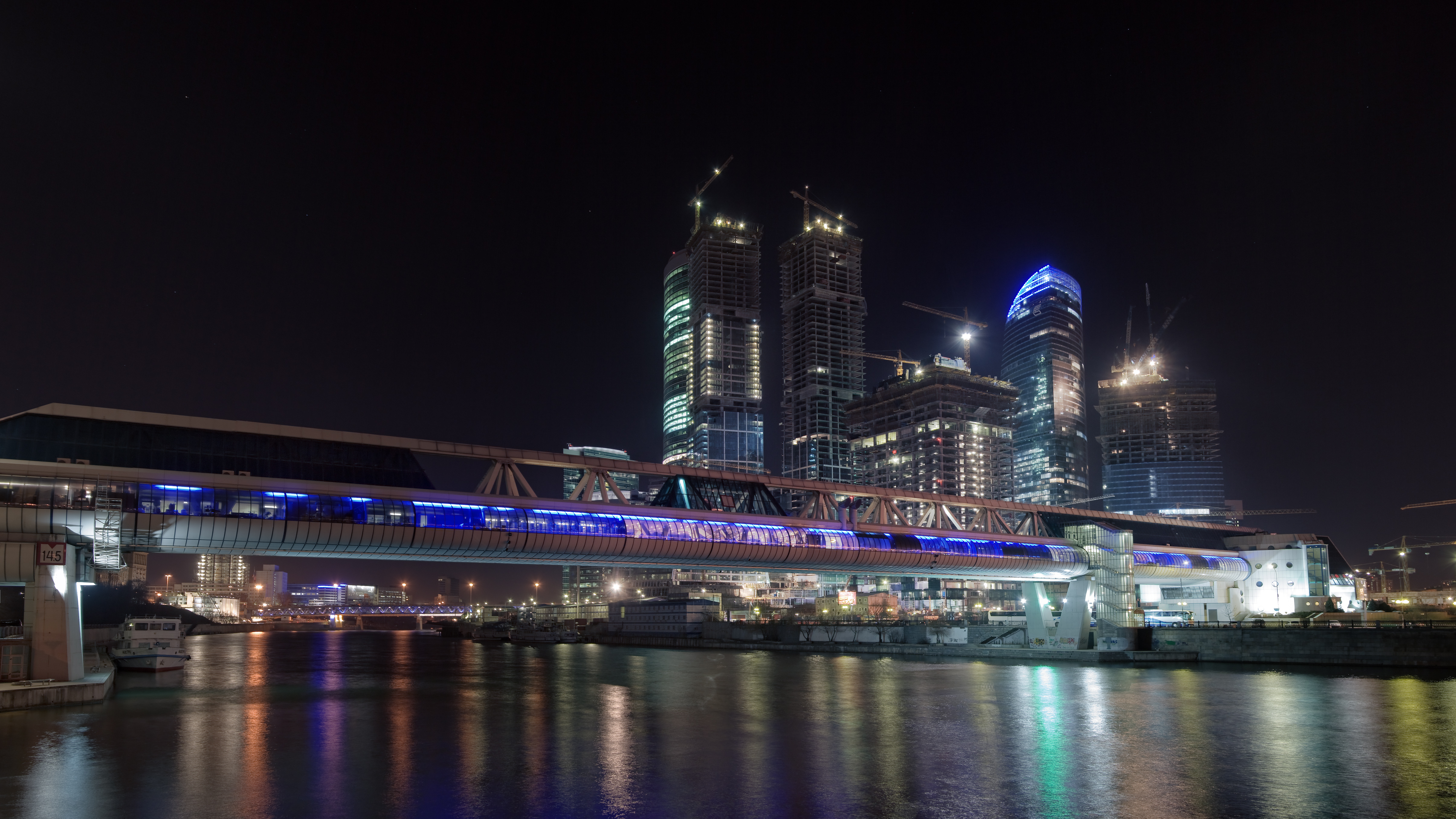 The development of Moscow International Business Centre (Moscow-City), March 2008.